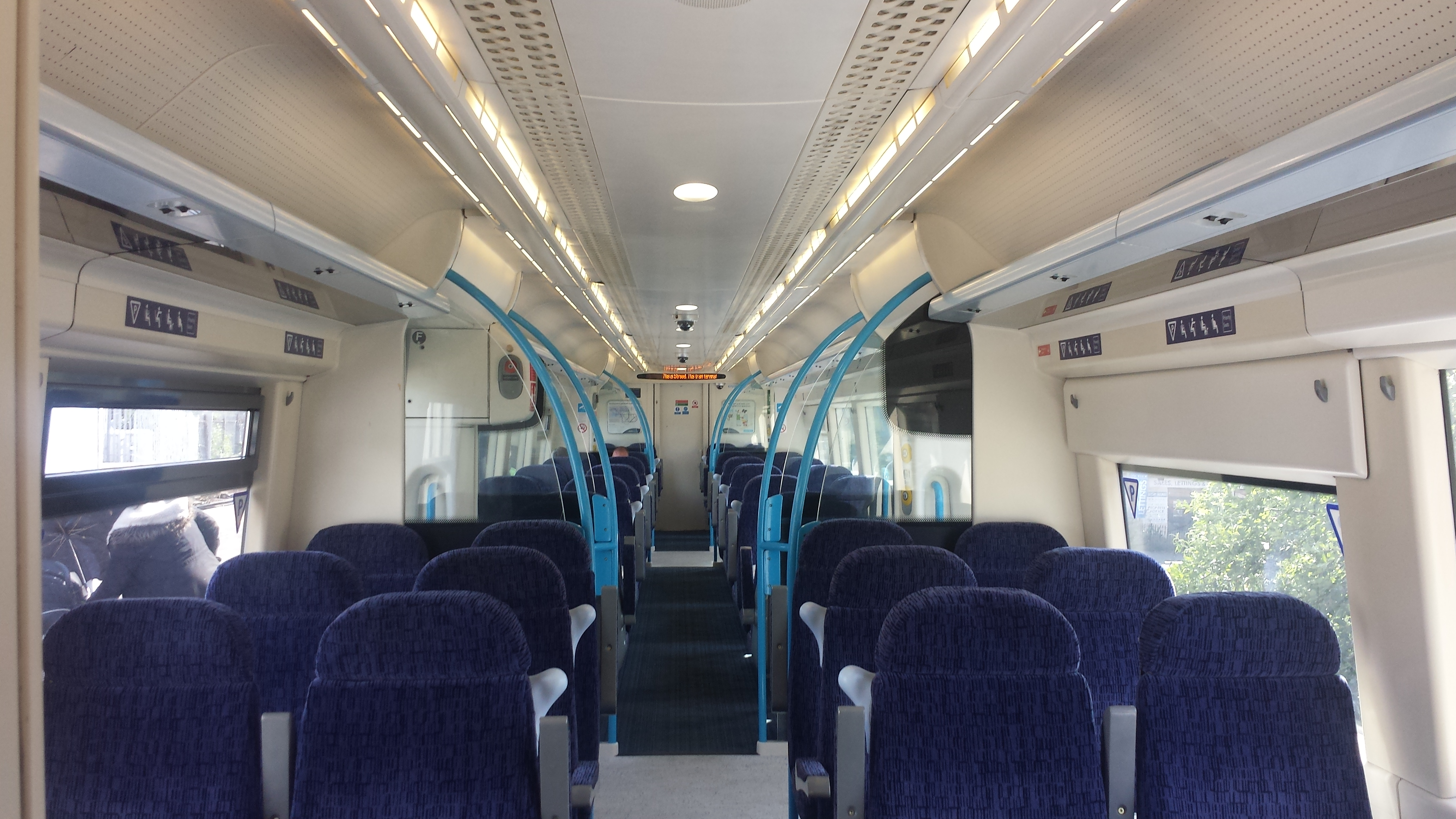 Refurbished Interior aboard 375306